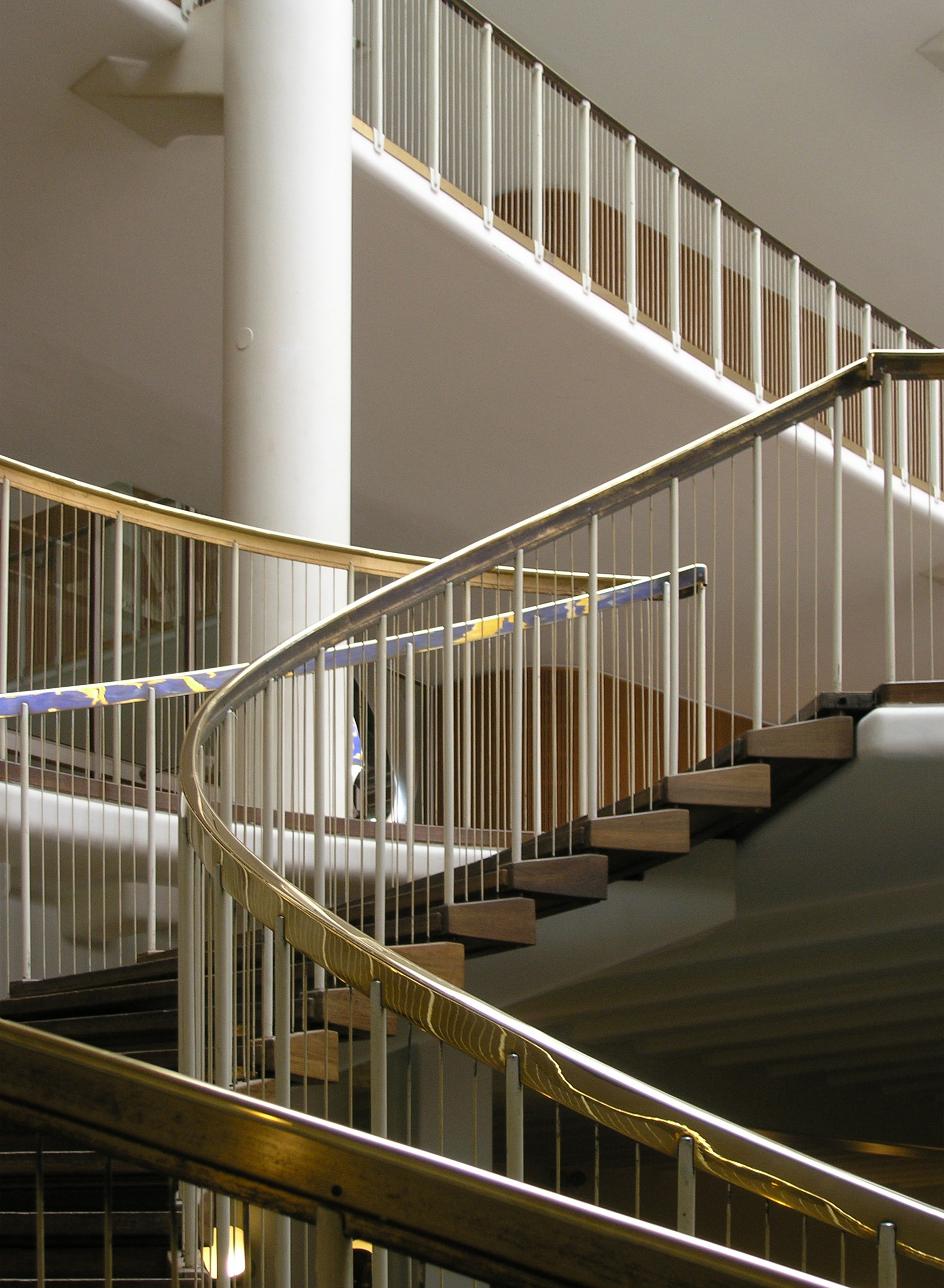 aarhus town hall, aarhus, denmark, 1937-1942. architects: arne jacobsen, 1902-1971 with erik møller, 1909-2002. portrait of a staircase...